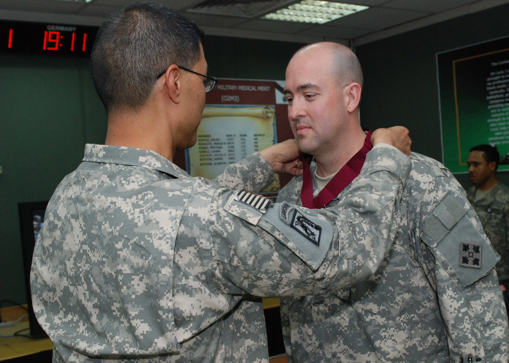 Lt. Col. David Ristedt, a Logansport, Ind., native, who serves as division surgeon, 4th Infantry Division, Multi-National Division – Baghdad, is presented the Order of Military Medical Merit by Brig. Gen. Joseph Caravalho, a Kaneohe, Hawaii, native, who serves as surgeon general, Multi-National Force – Iraq, inside division headquarters, Jan. 5. The Order of Military Medical Merit recognizes excellence and promotes fellowship and esprit de corps among the Army Medical Department and denotes distinguished service for individuals who have clearly demonstrated the highest standards of integrity and moral character, displayed an outstanding degree of professional competence, served in the Army Medical Department with selflessness and made sustained contributions to the betterment of Army Medicine. The ceremony was seen by Ristedt's family back in Fort Hood, Texas, via video teleconference.